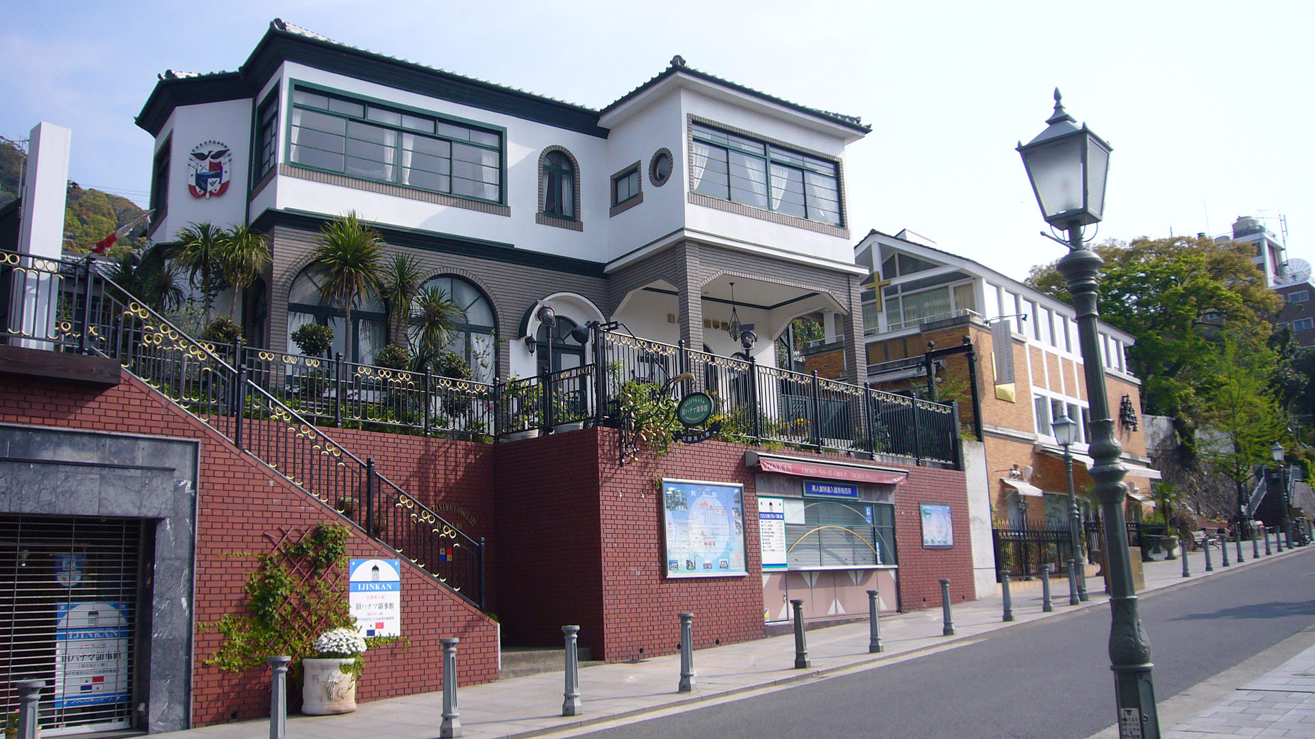 Old Panamanian Consulate in Kobe, Japan